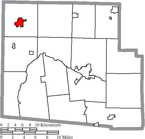 Map of the municipal and township boundaries of Hardin County, Ohio, United States, as of the 2000 census, with the location of the village of Ada highlighted. Township borders are shown only in unincorporated areas in order to differentiate incorporated and unincorporated areas more clearly.